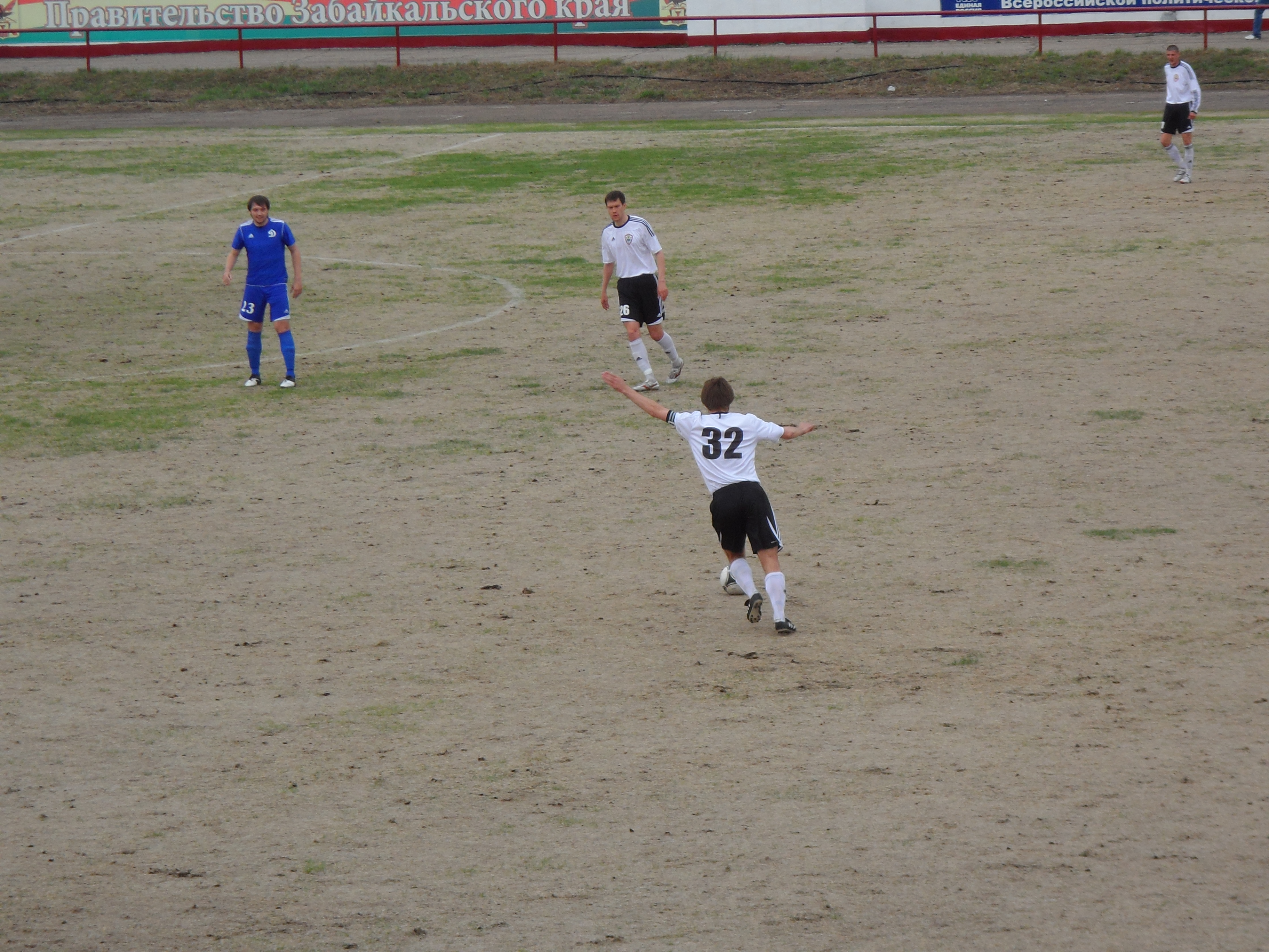 FC «Chita» defender Aleksandr Bodyalov playing off the free kick. Episode of the match «Chita» - «Dinamo» (Barnaul). 39th round of the competition in «East» zone of the Russian second division. May 19, 2012.